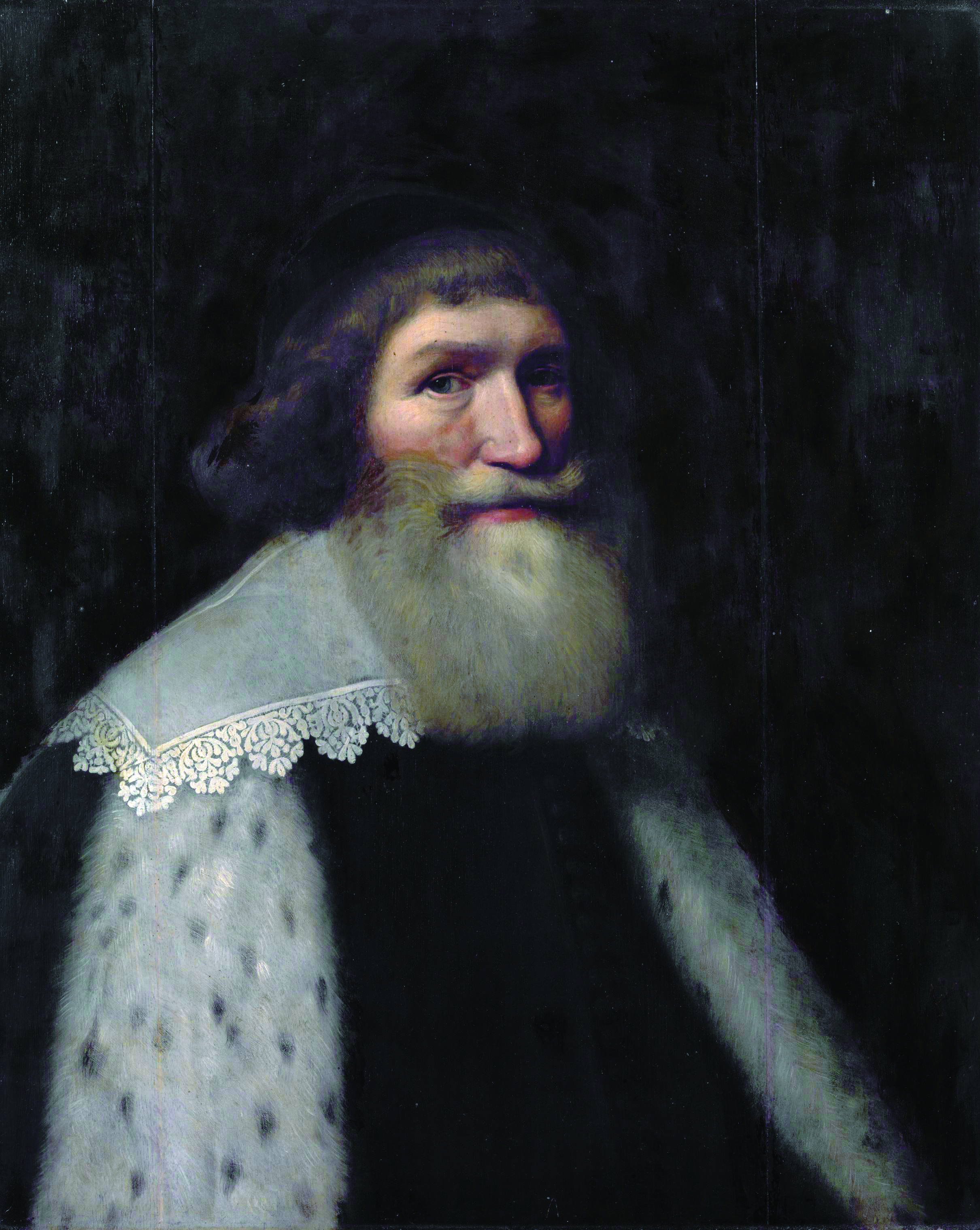 Cornelis Haga (1578-1654) oil on panel 69 x 57 cm inscribed c.l.: aetatis 67 / ao. 1645